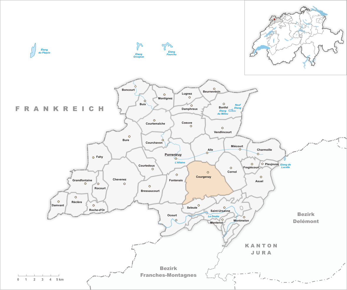 Municipality Courgenay Artist: Tschubby